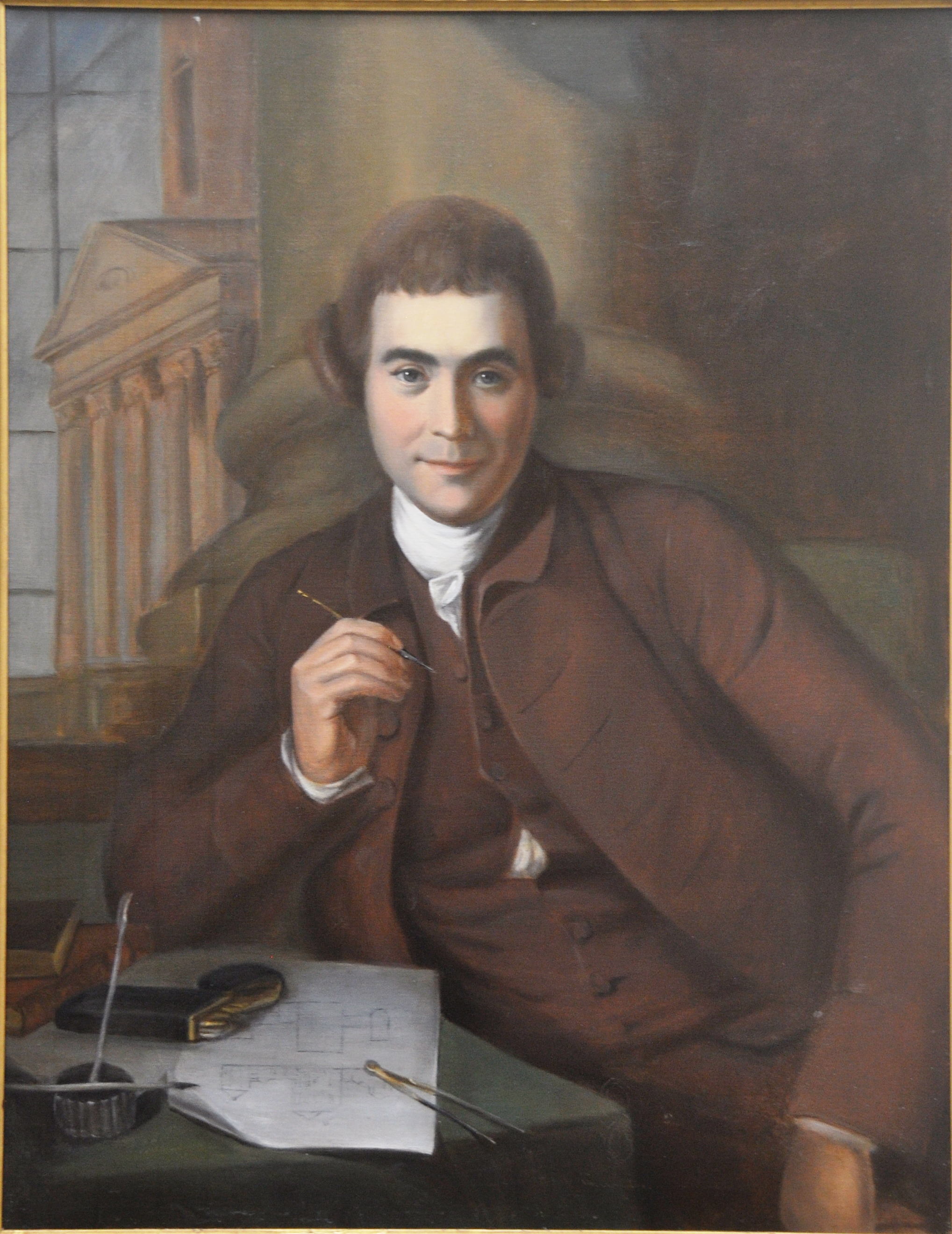 Charles Willson Peale (American, 1741-1827) portrait of colonial American architect, William Buckland (1734-1774).